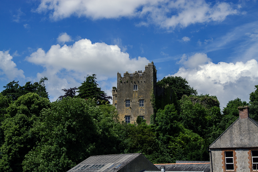 Castles of Munster: Ardfinnan, Tipperary (2), near to Ard Fhionain, Neddans House and Ballyneety, Tipperary, Ireland.